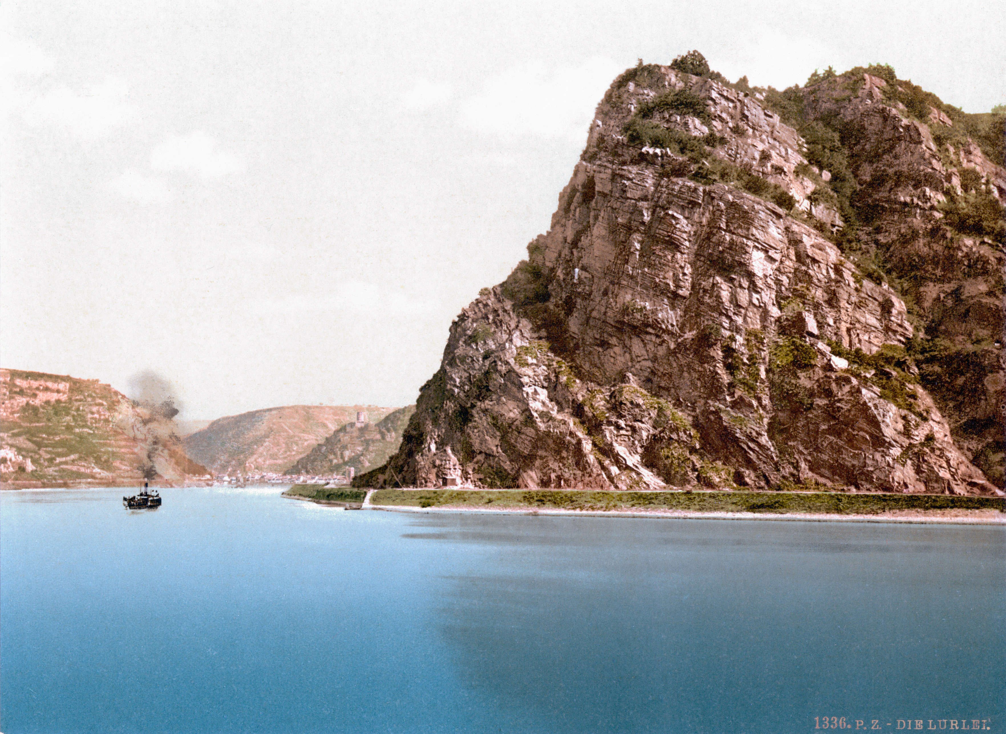 The Loreli, the Rhine, Germany